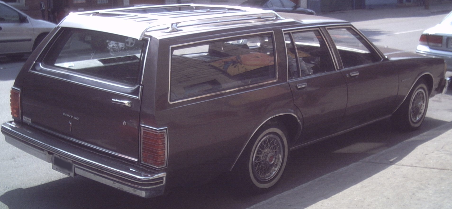 Pontiac Parisienne station wagon (late 1970's)